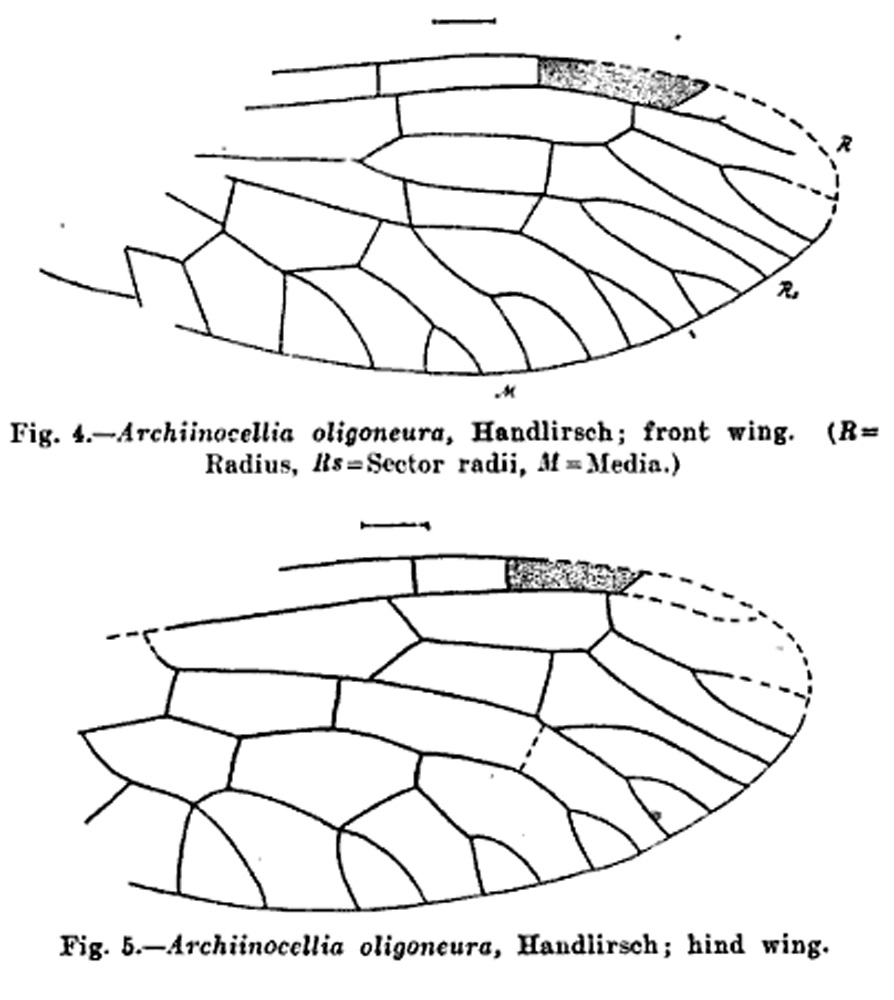 Holotype Line drawings, fore and hind wing, of Archiinocellia oligoneura First published in 1910